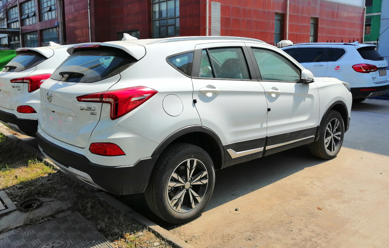 Haima S5 facelift photographed in Hefei, Anhui province, China.